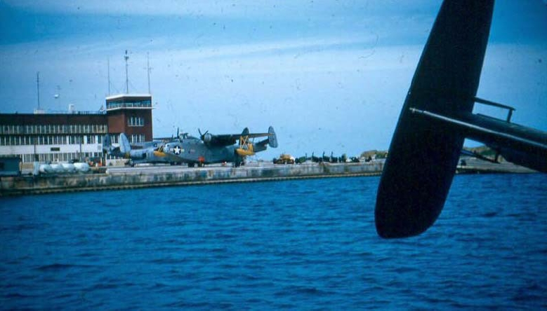 U.S. Coast Guard Martin PBM-5G Mariner flying boats of the Coast Guard Air Detachment Bermuda at the old Naval Air Station Bermuda (later NAS Bermuda Annex).